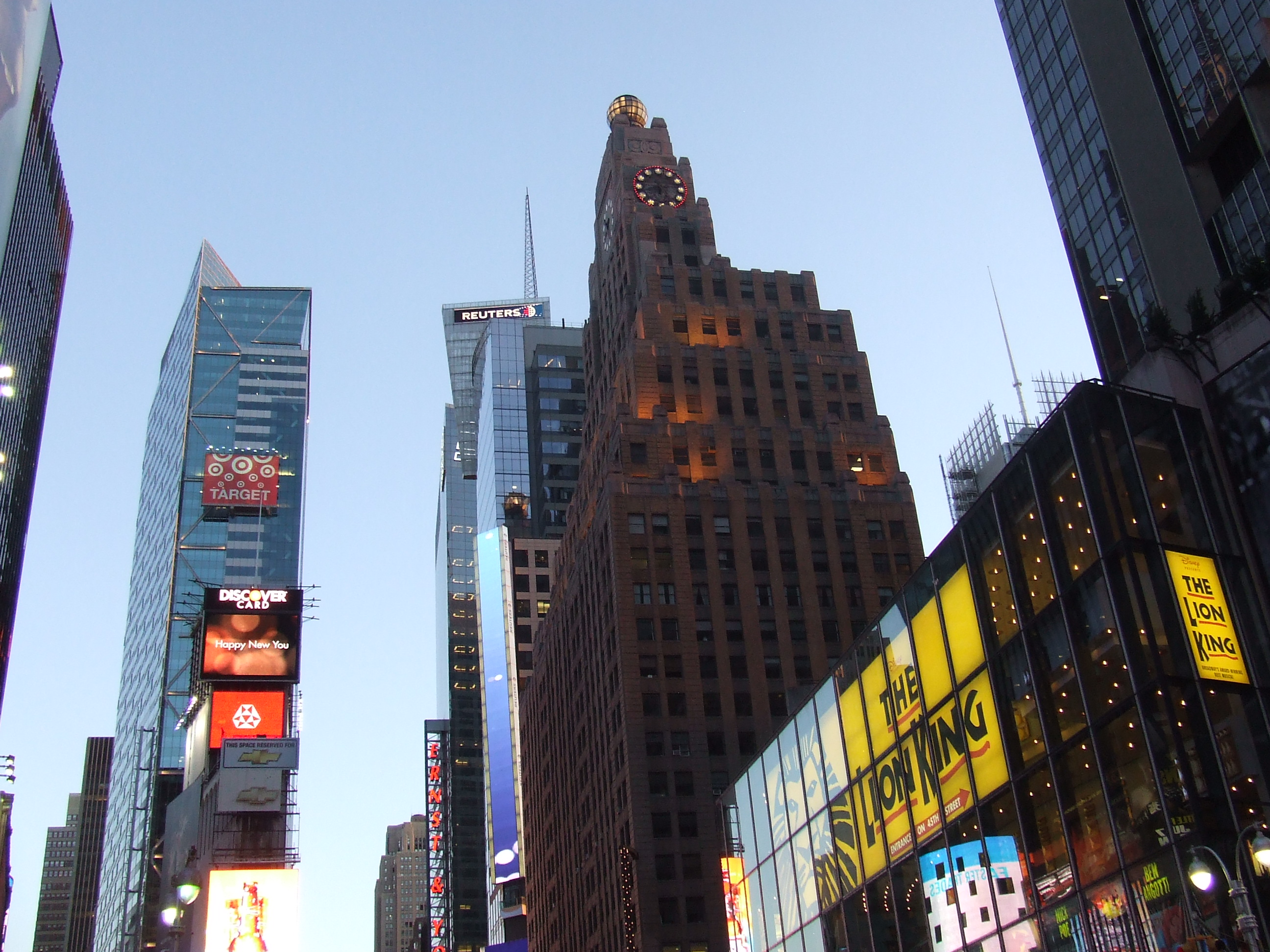 Looking southwest at Paramount Theatre (New York City), 1501 Broadway NYC times Square. NYCLPC designation 1988.